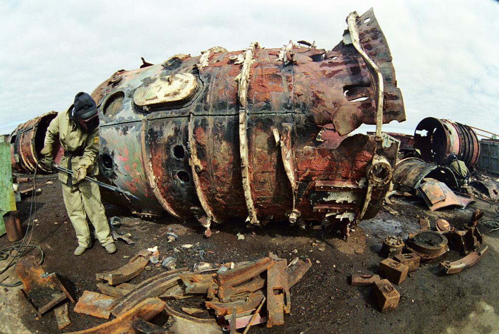 “A welder in protective suit cutting the body of a nuclear-powered submarine”. A welder in protective suit cuts the body of a nuclear-powered submarine at Zvyozdochka enterprise.